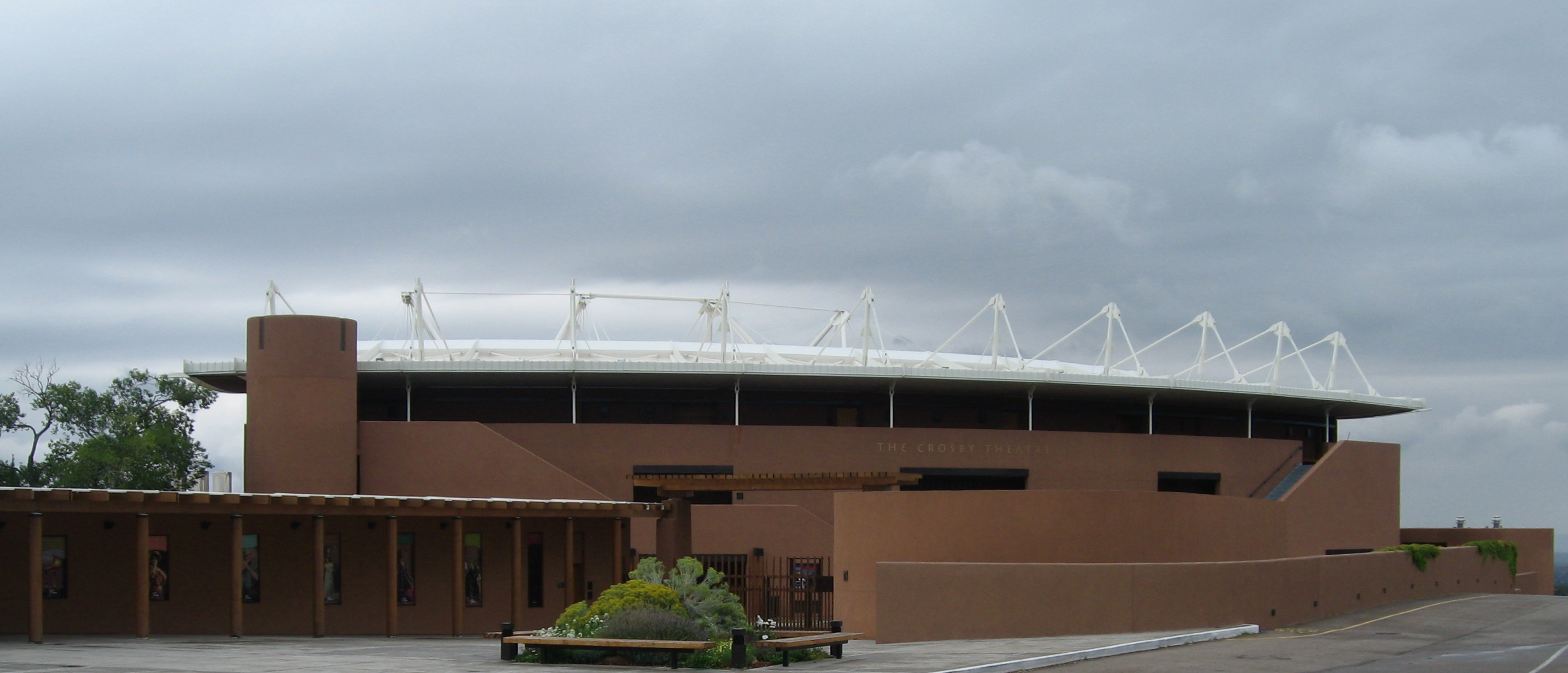 This view of the Santa Fe Opera Crosby Theater shows the solid rod stays which support the roof from above.